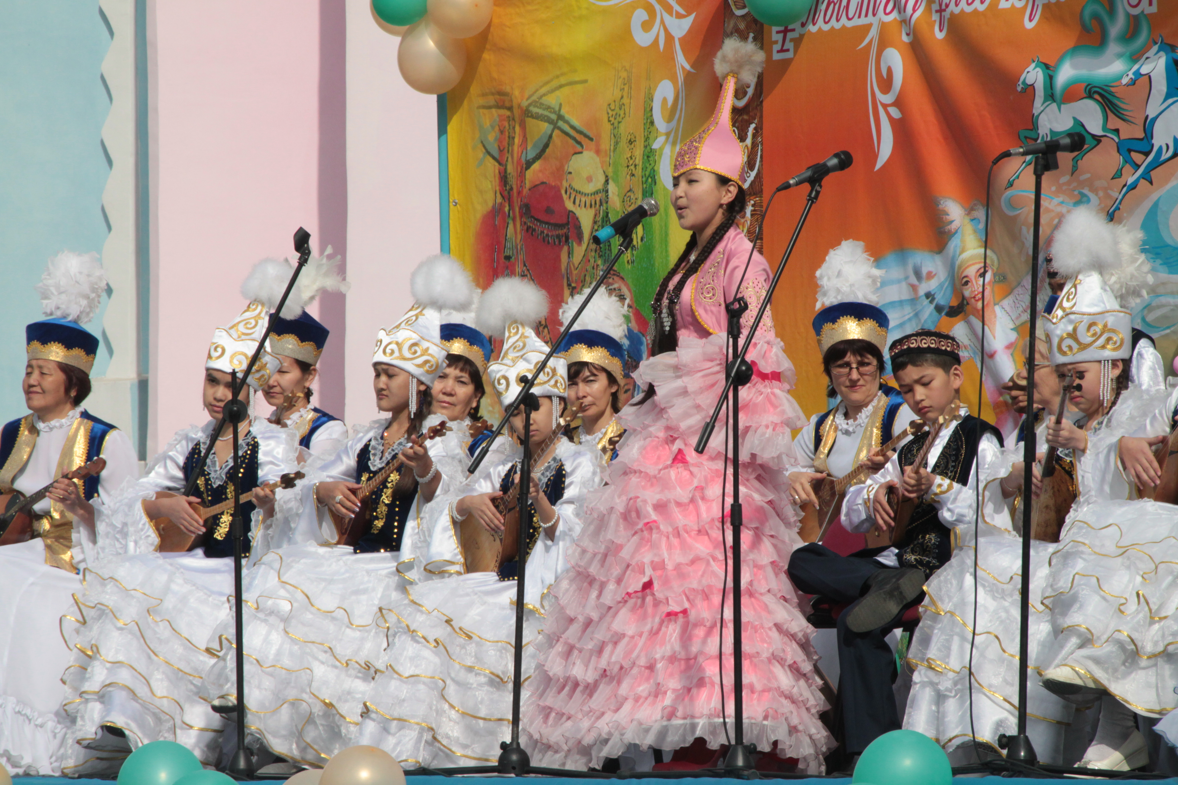 Traditional costume for Nauryz, Kazakhstan. Singer and players of dombra.